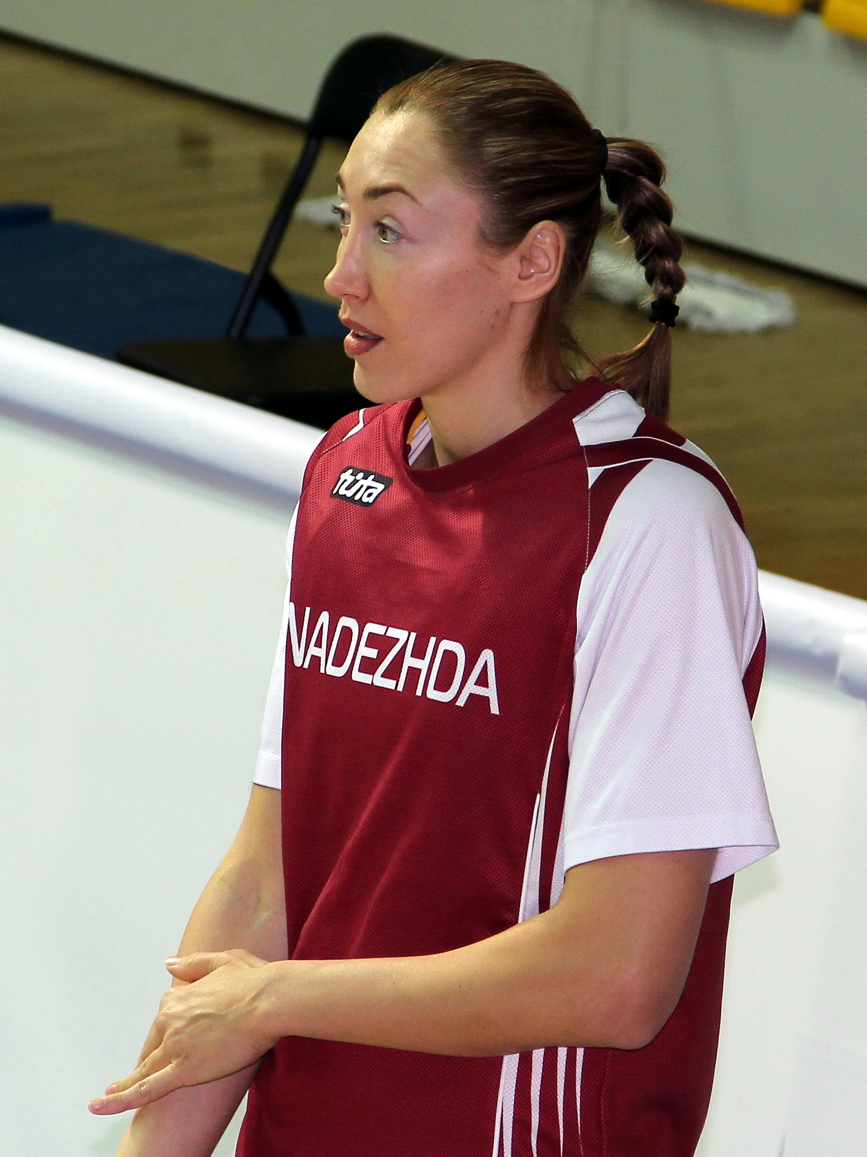 Russia, Vologda, Oxana Zakalyuzhnaya in game «Vologda-Chevakata» vs «Nadezhda» (Orenburg)